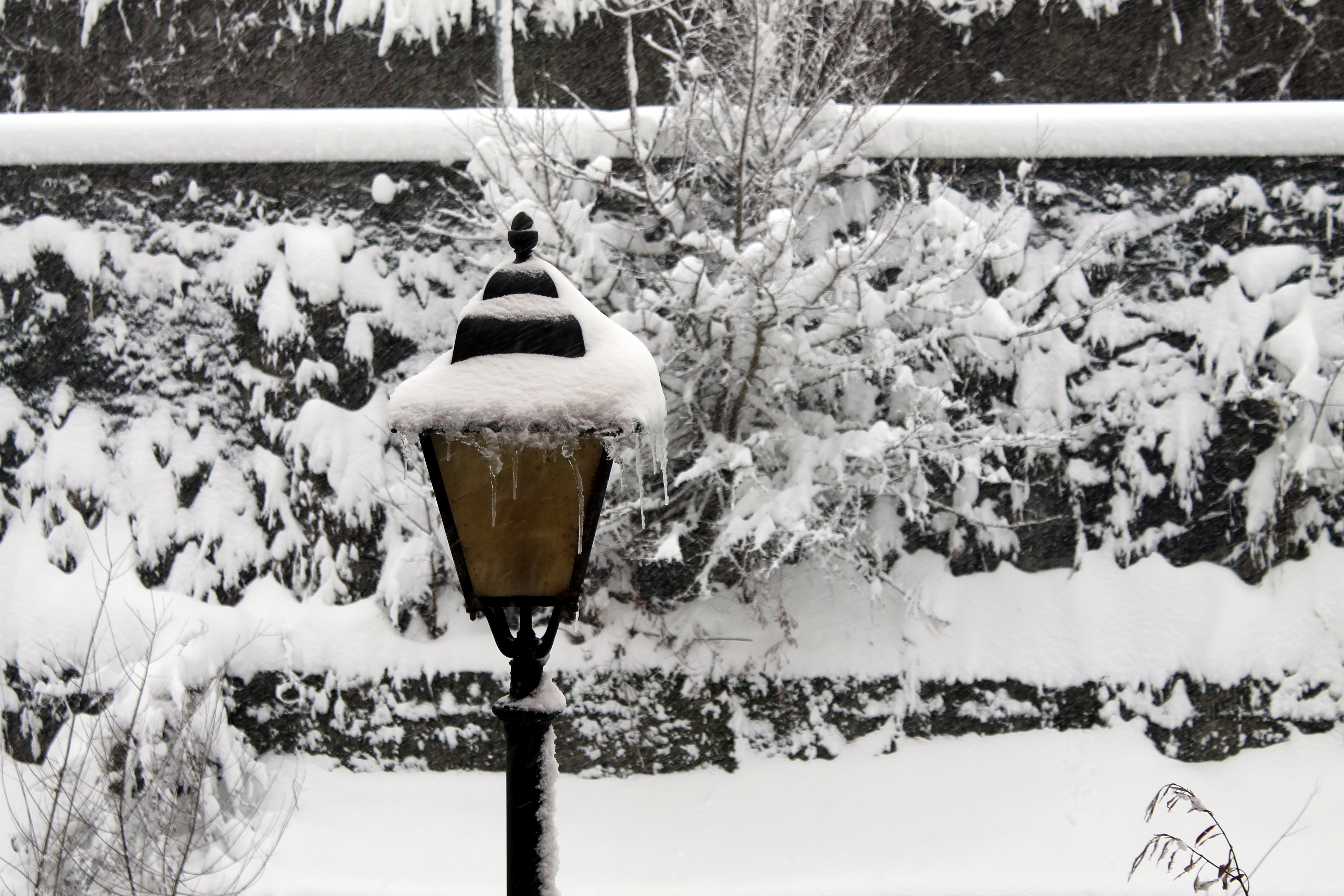 Street lamp during a snowfall, in Italy.